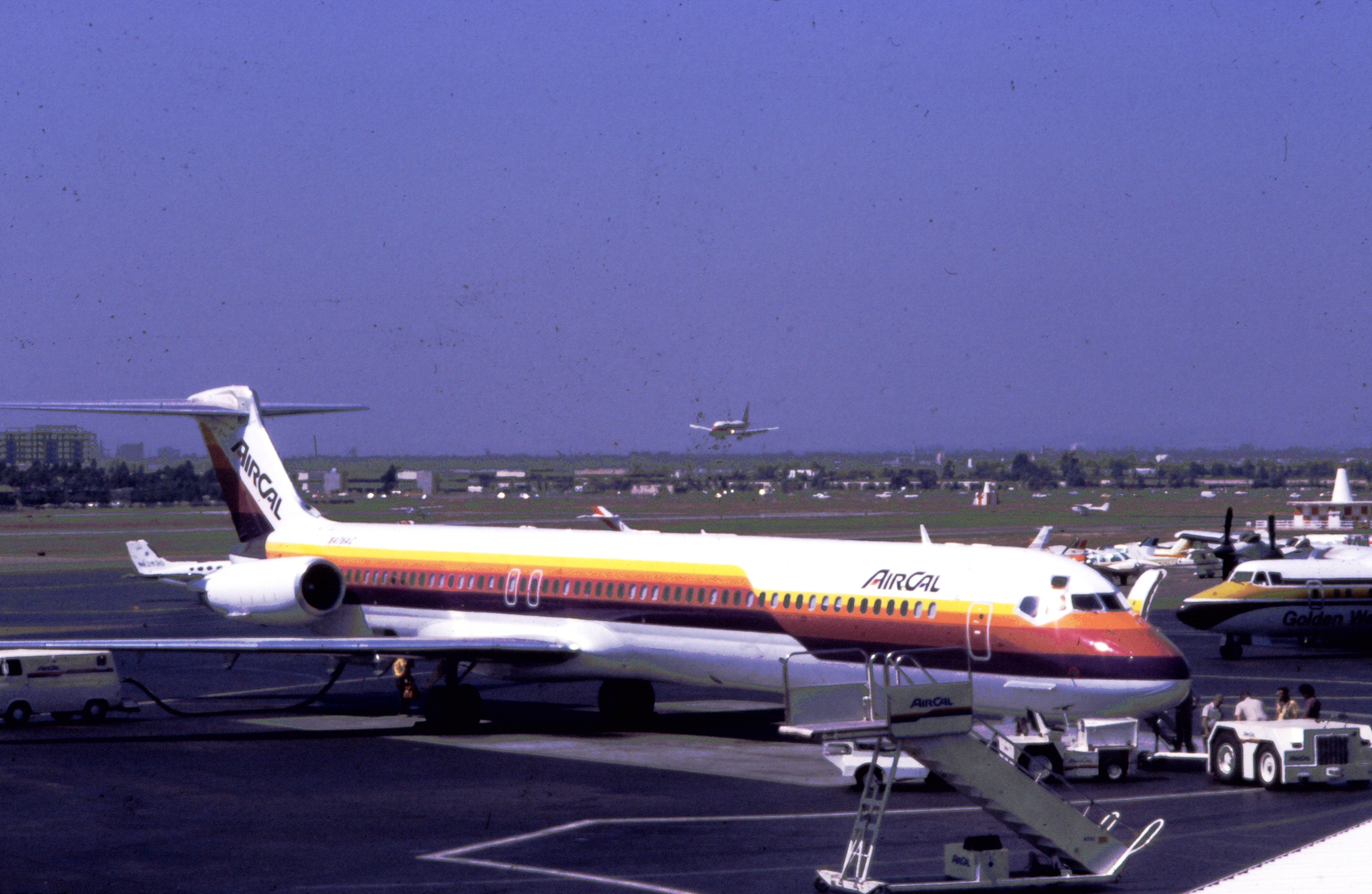 There are no known copyright restrictions on this image. All future uses of this photo should include the courtesy line, "Photo courtesy Orange County Archives." Comments are welcome after reading our Comment Policy .